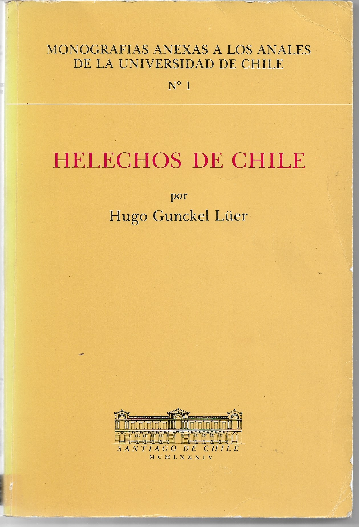 Helechos de Chile by Hugo Gunckel (c)Hugo Gunckel Lüer